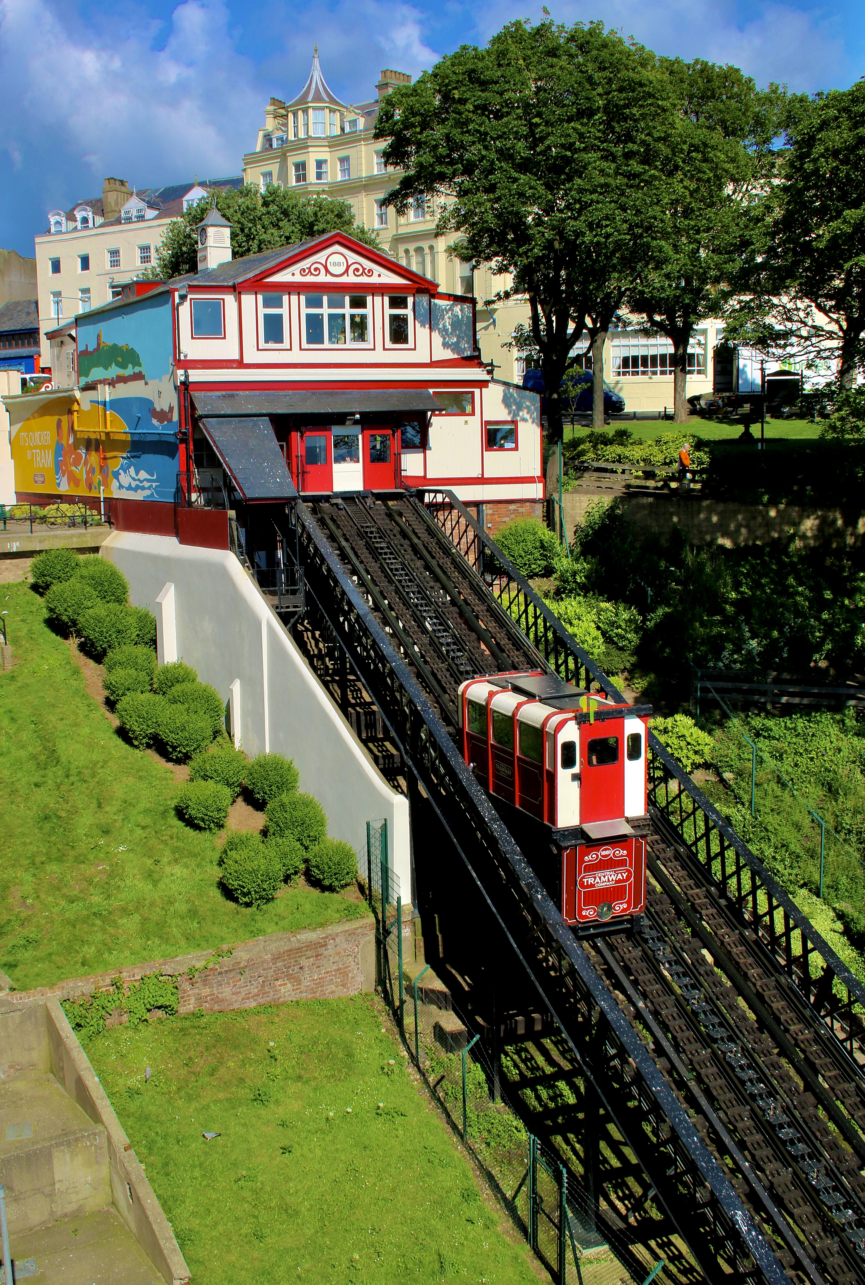 Central Tramway Company, Scarborough, Ltd. Victorian cliff railway built in 1881.